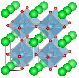 Crystal structure of SrTiO3 in its cubic phase (space group Pm-3m). The conventional unit cell is given by the black box. Green balls: Sr, blue balls: Ti, red balls: O. Picture made with the program VESTA.